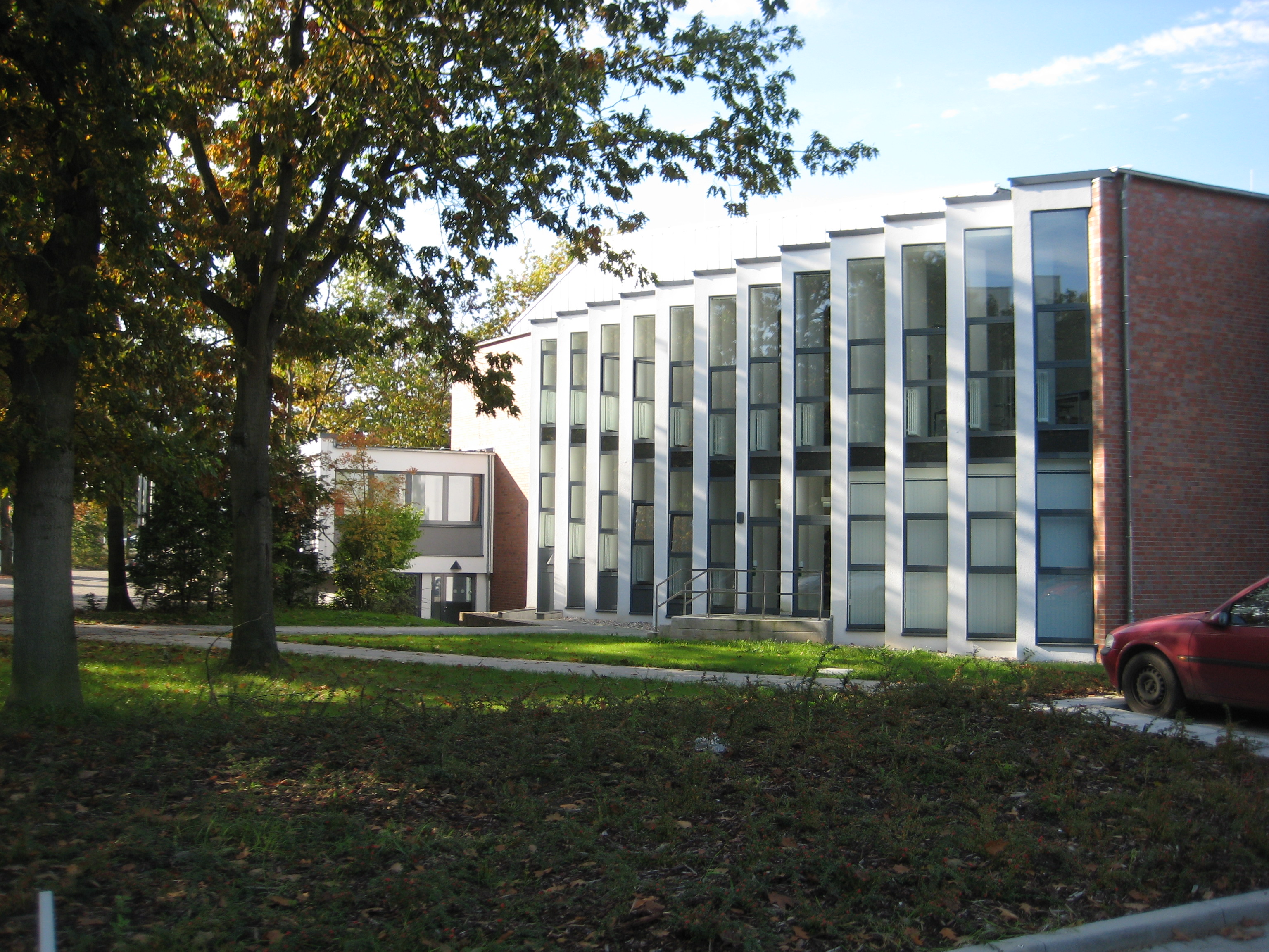 Picture "Fachhochschule Lübeck"